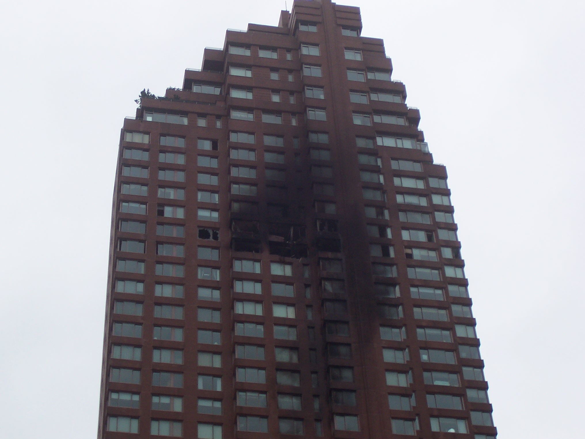 Belaire Condominium, 12 October 2006, after being hit by a small aircraft